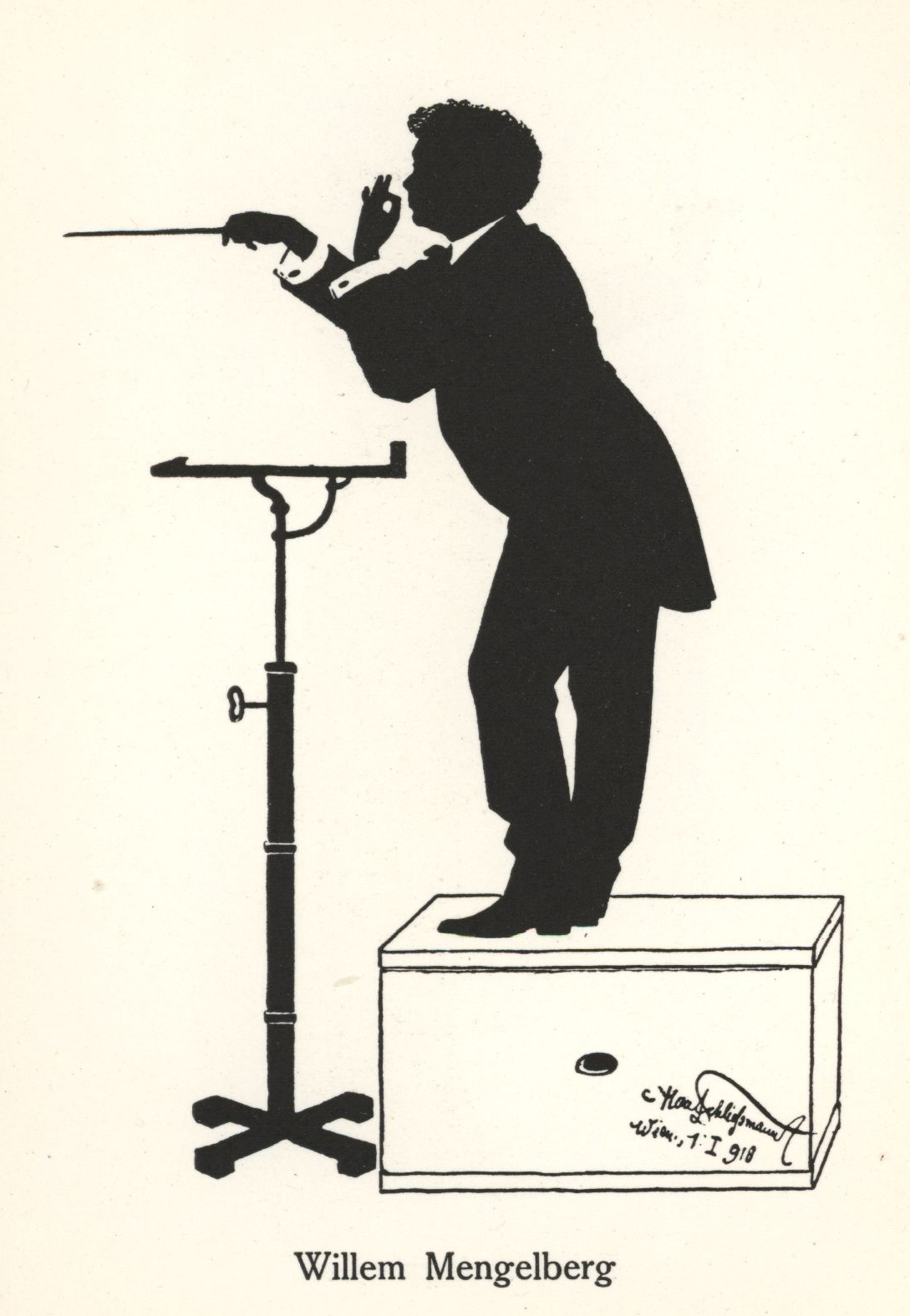 Willem Mengelberg (1871–1951), Dutch conductor; silhouette by Hans Schließmann